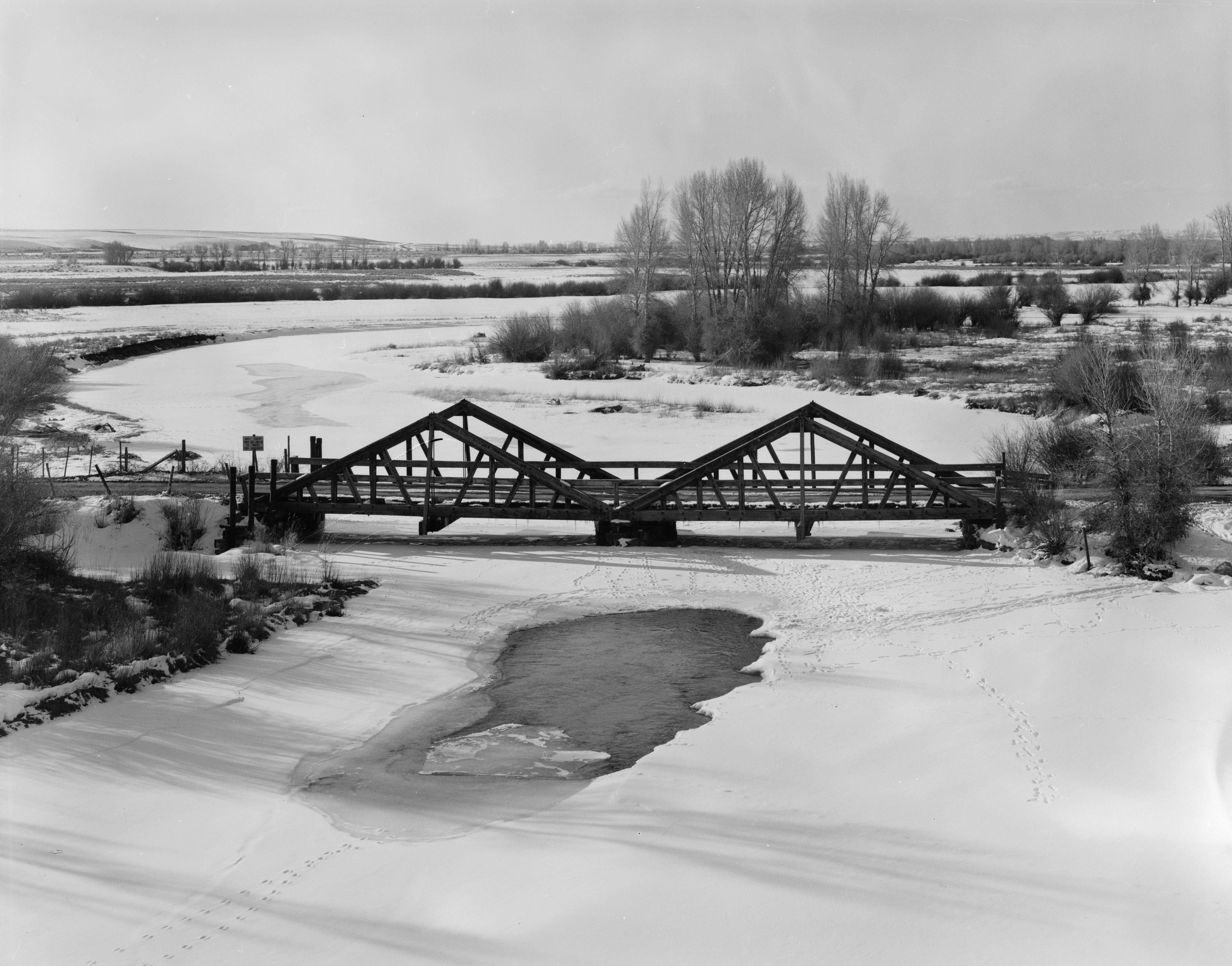 Southern side of the DDZ Bridge over New Fork River, which carries County Road 136 over the New Fork River near Boulder in Sublette County, Wyoming, United States. Built in 1917, it is the only two-span Kingpost timber truss bridge in the state, and it is listed on the National Register of Historic Places.